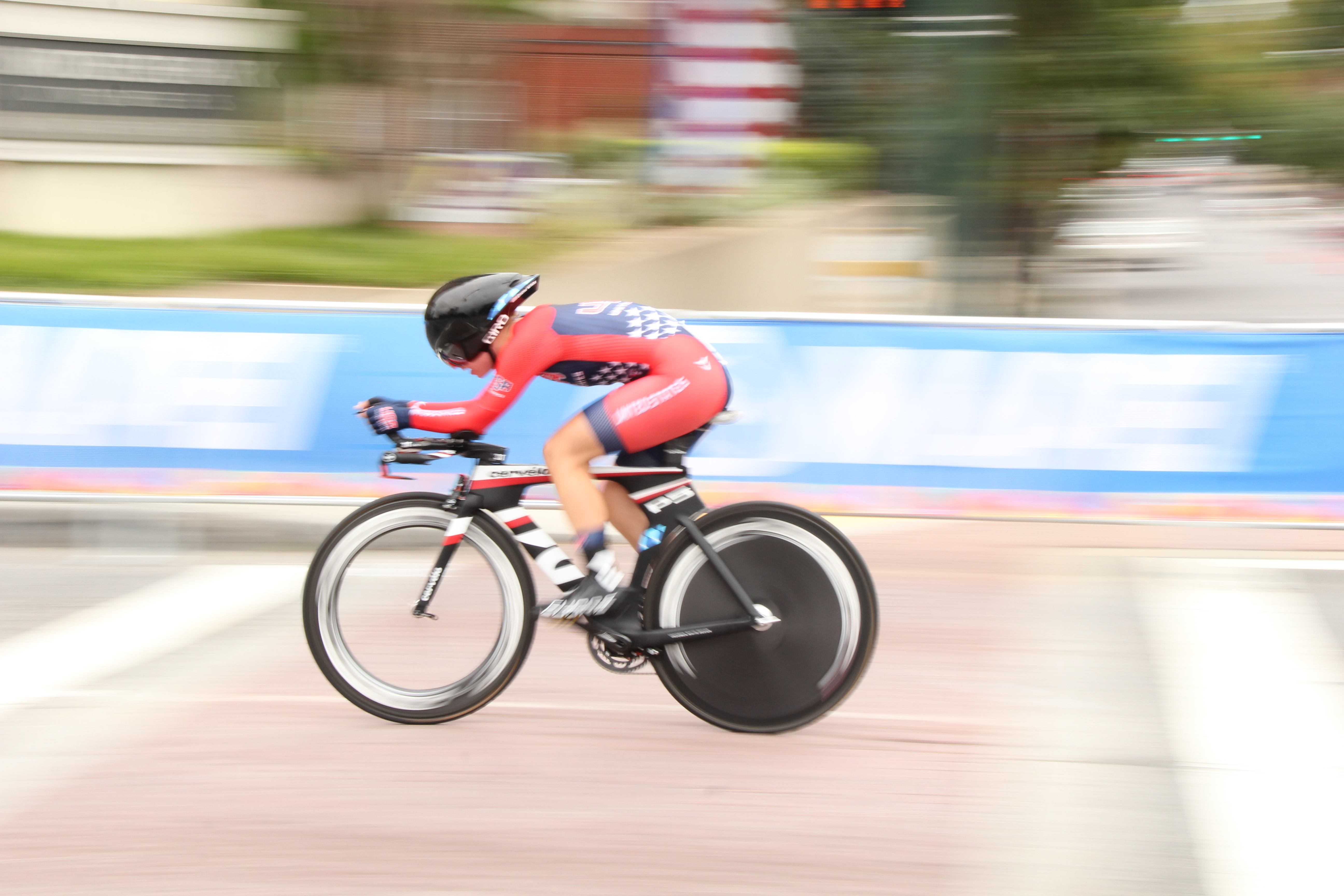 The world has come to Richmond. Welcome! Bienvenidos! Willkommen! 2015 UCI Road World Championships, Women's junior time trial, in Richmond, United States